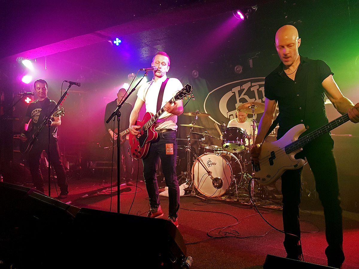 Photo of Baby Chaos playing live at King Tut's Wah Wah Hut in Glasgow on Sat, 11 Mar 2017